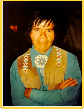 Picture of Cherokee Indian artist Joe T. Waáno-Gano Noonan